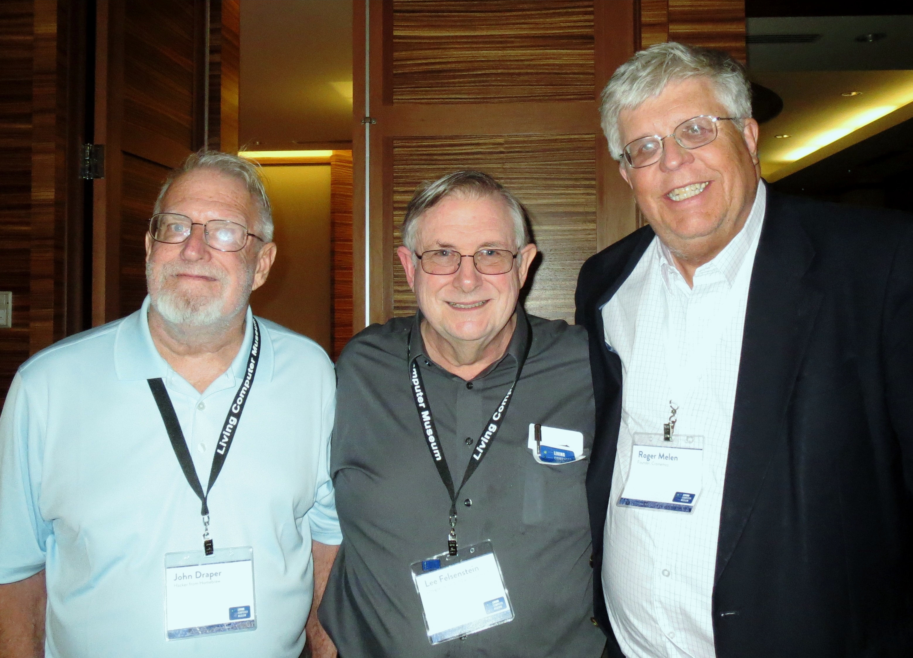 Homebrew Computer Club members: Lee Felsenstein (middle), John Draper (Captain Crunch), Roger Melen.